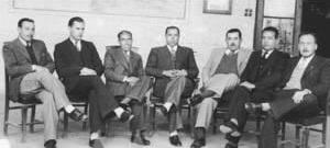 Staff of Escuela de Artes y Oficios de la Nación in the province of San Juan, Argentina. From left to right: José Octavio Figueroa; Wenceslao Otruba; Osman H. Moya; Agustín Cardozo; Gregorio Ormeño; Lorenzo Ayala y Rinaldo Viviani.